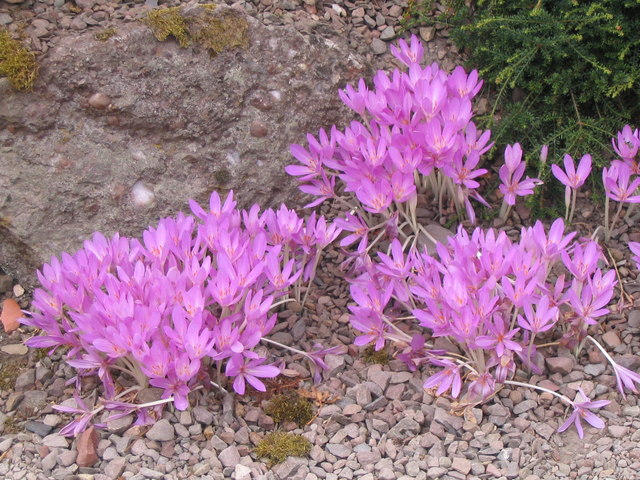 Autumn crocus Colchicum tenorii, an Italian species, flowering in September in the rockery of the Royal Botanic Garden, Edinburgh. The leaves appear in the spring, as the seeds ripen.